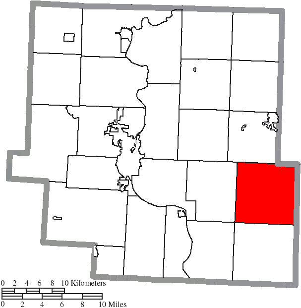 Map of the municipal and township boundaries of Muskingum County, Ohio, United States, as of the 2000 census, with the location of Rich Hill Township highlighted. Township borders are shown only in unincorporated areas in order to differentiate incorporated and unincorporated areas more clearly.